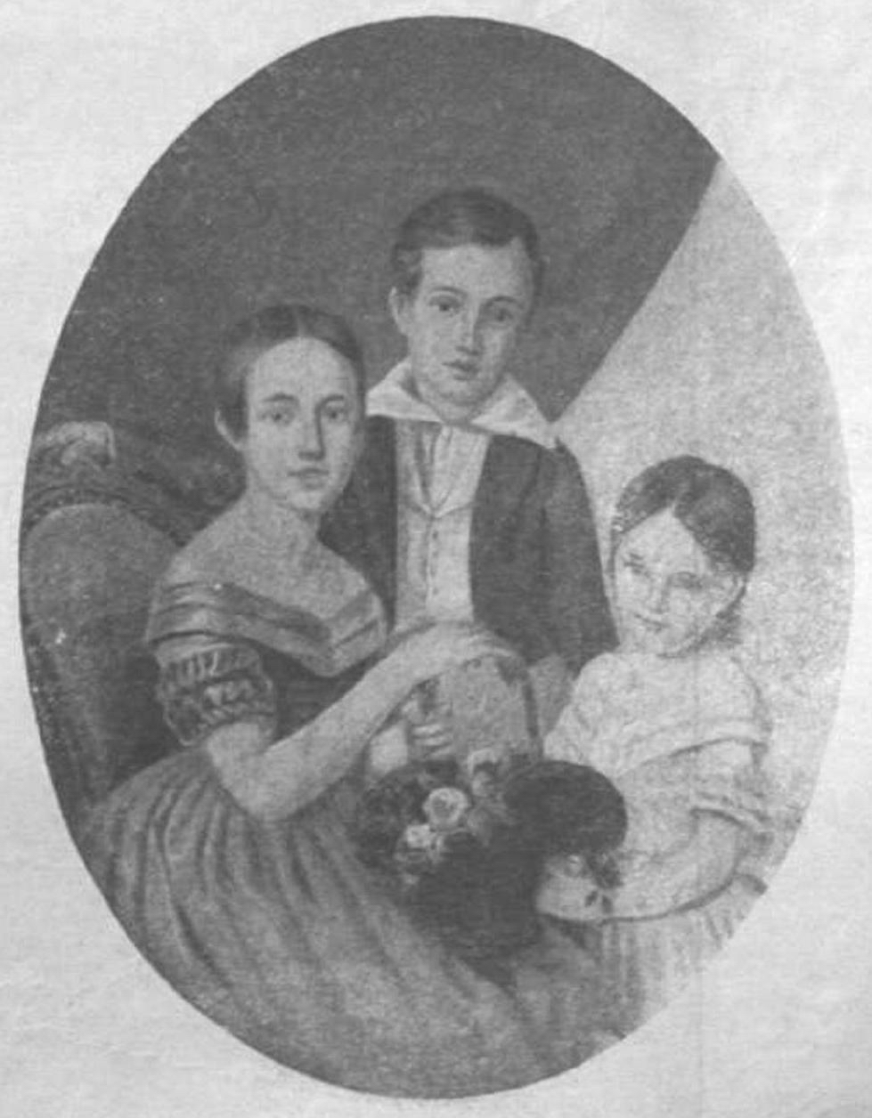 Archduke Joseph Karl Ludwig of Austria and his sisters: Archduchess Elisabeth Franziska of Austria (1831-1903), Marie Henriette of Austria (1836-1902)